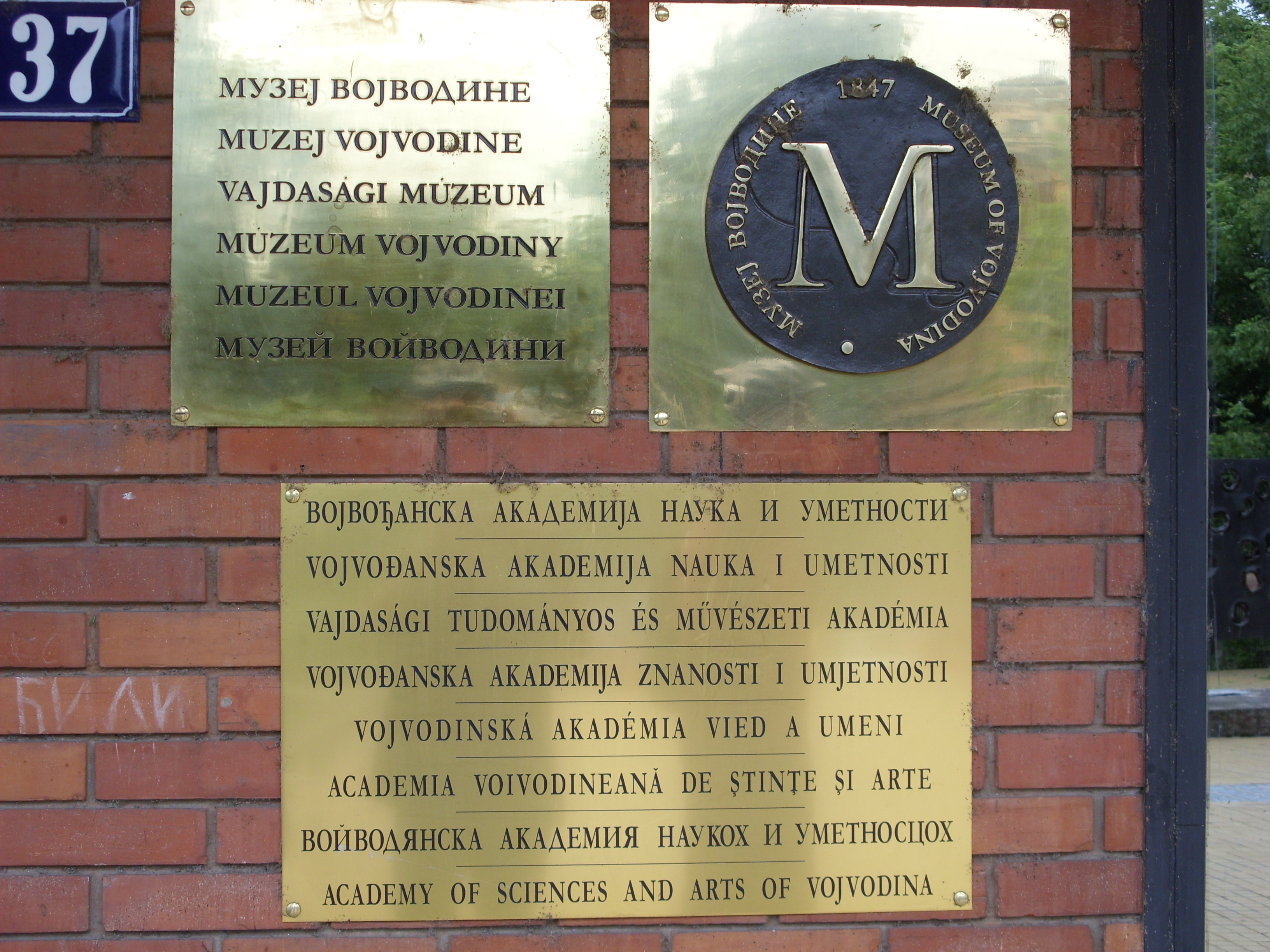 Name plate of the Museum of Vojvodina in Novi Sad in different languages